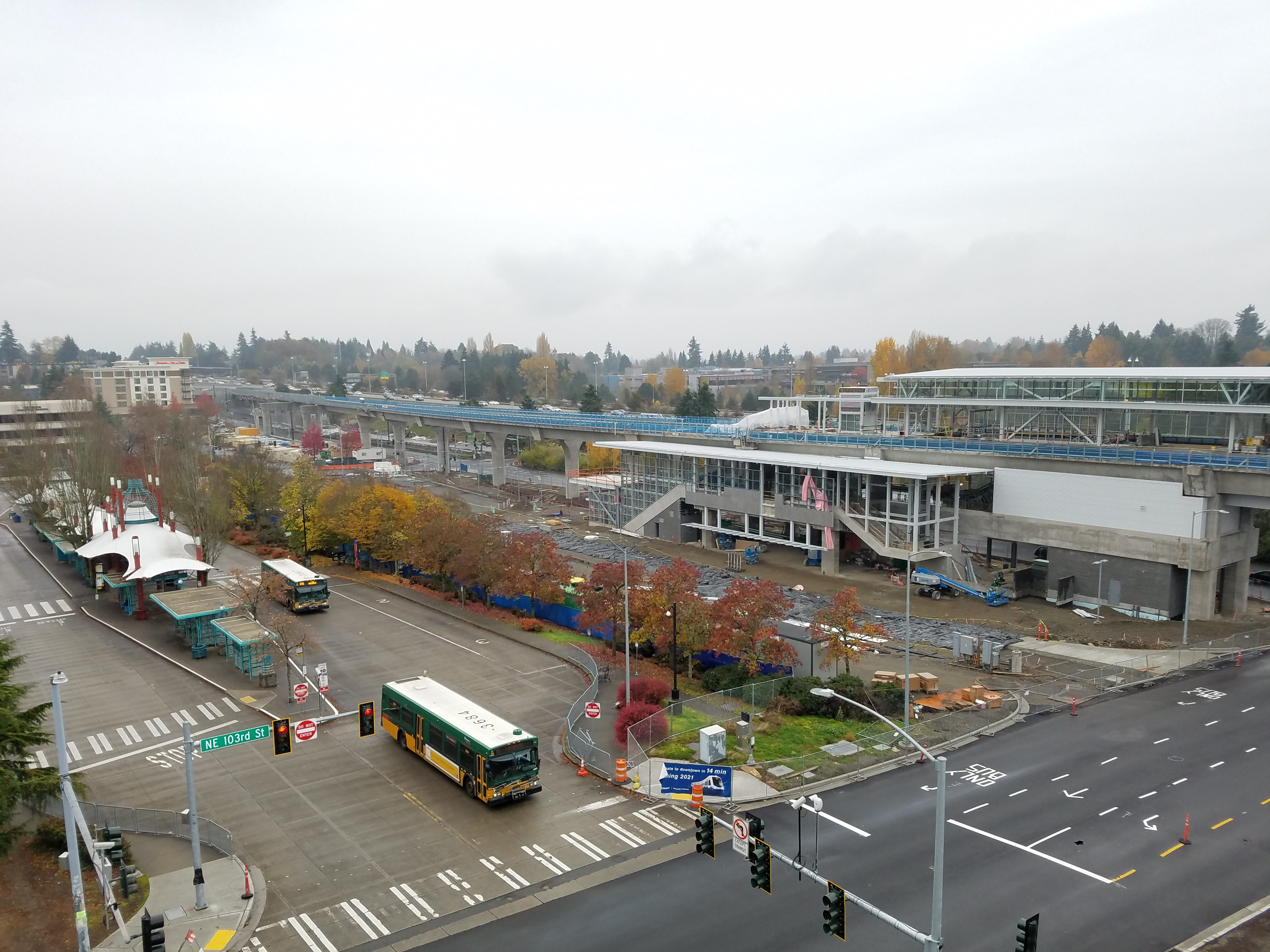 View of the Northgate Transit Center in Seattle, WA, USA in November 2019, showing the existing bus station on the left and the under-construction rail station on the right.